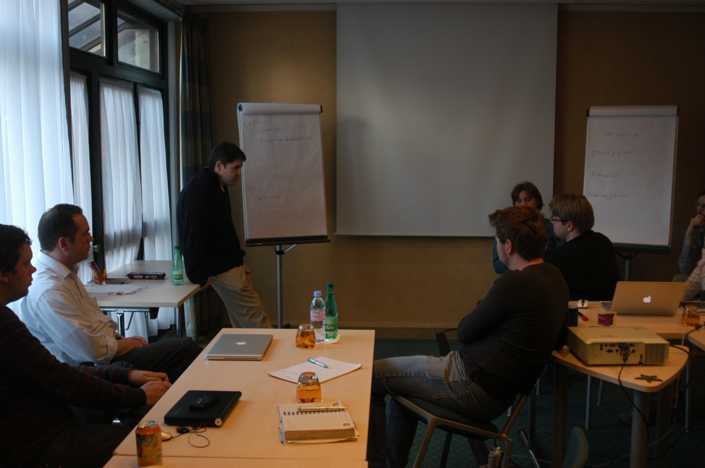 discussion about many issues concerning wikimedia strategig planning